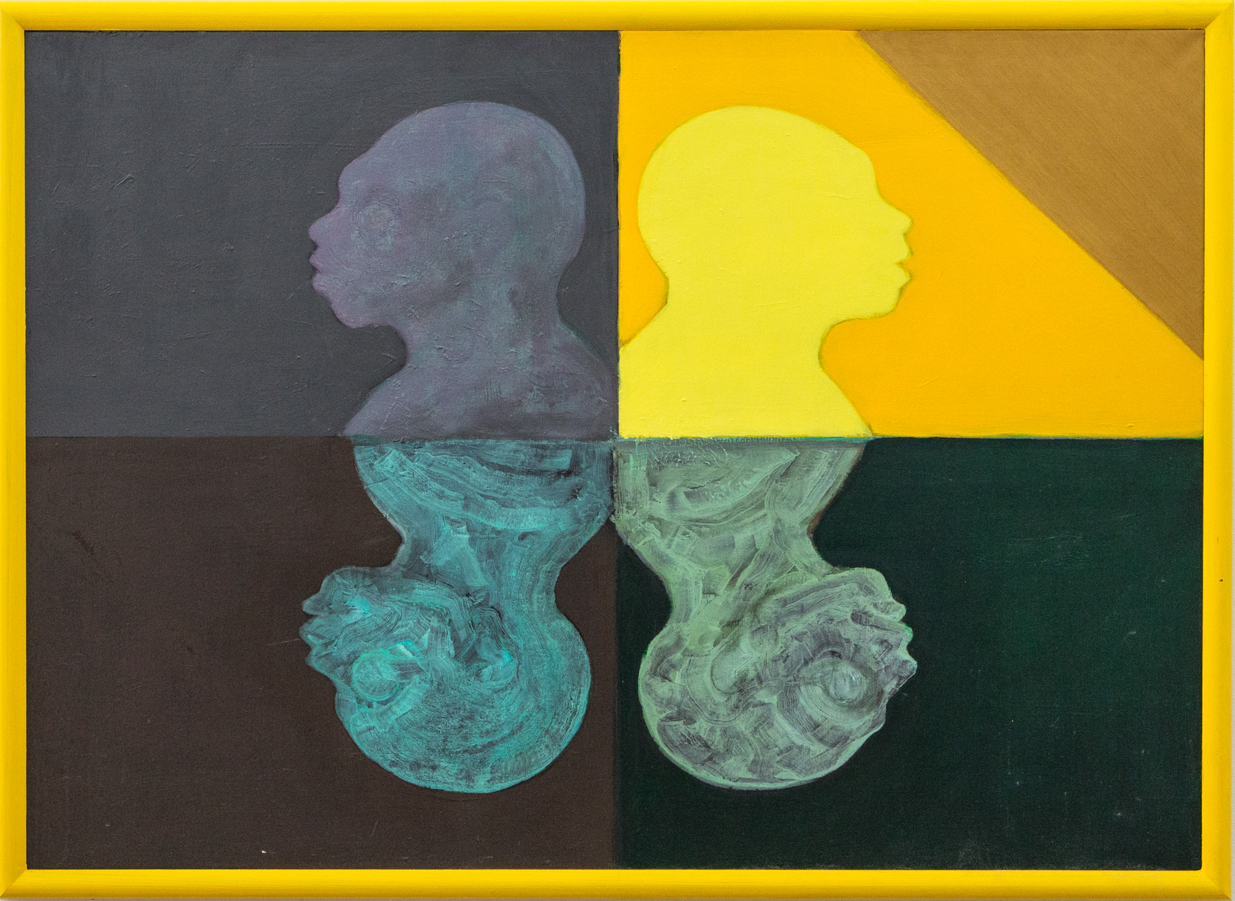 "Speilinger" (=Reflections). Painting by the Norwegian painter Bjørn Krogstad. Oil on canvas. 107,5x147 cm.